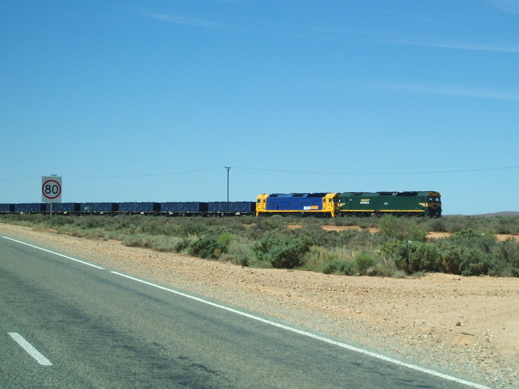 Original: Train near Mannahill. From Peterborough we headed along the Barrier Highway to the NSW Border and the old Mining Town of Broken Hill. It is a long drive and a fairly featureless road, but this is what we saw. Added: Pacific National 'Bemax' ore train behind two ex-V/Line G class locos, lead unit in Freight Australia livery, second in PN livery.